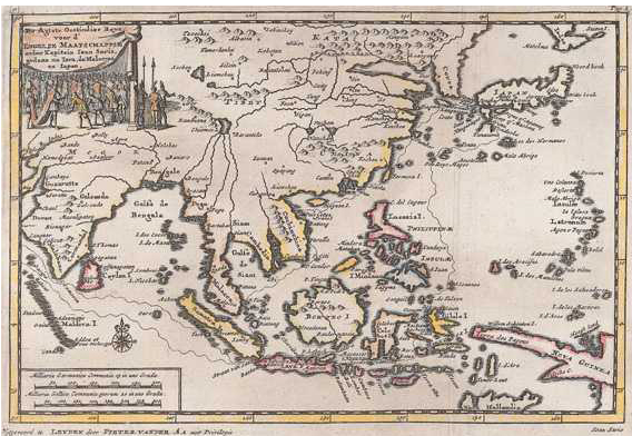 Map of South East Asia